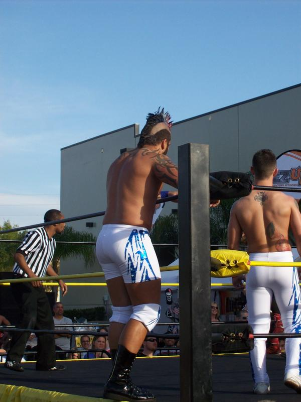 wwedwd